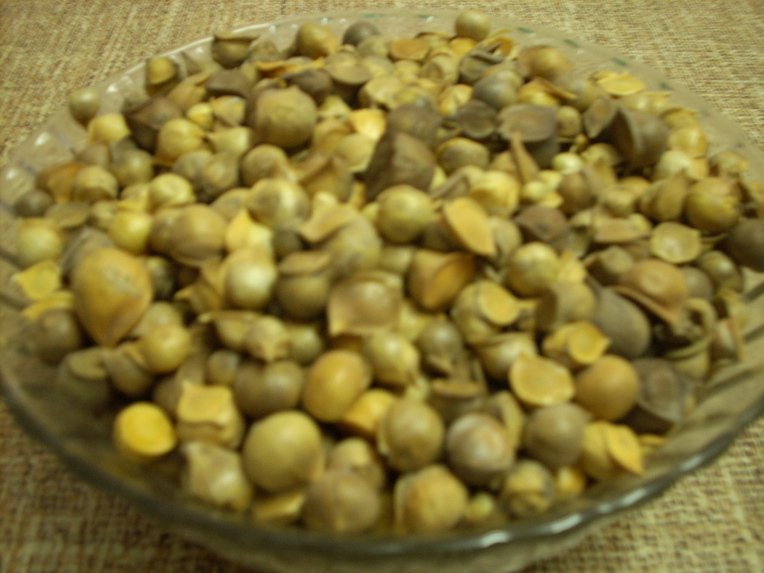 Snow Mountain Garlic (Kashmiri Garlic) image